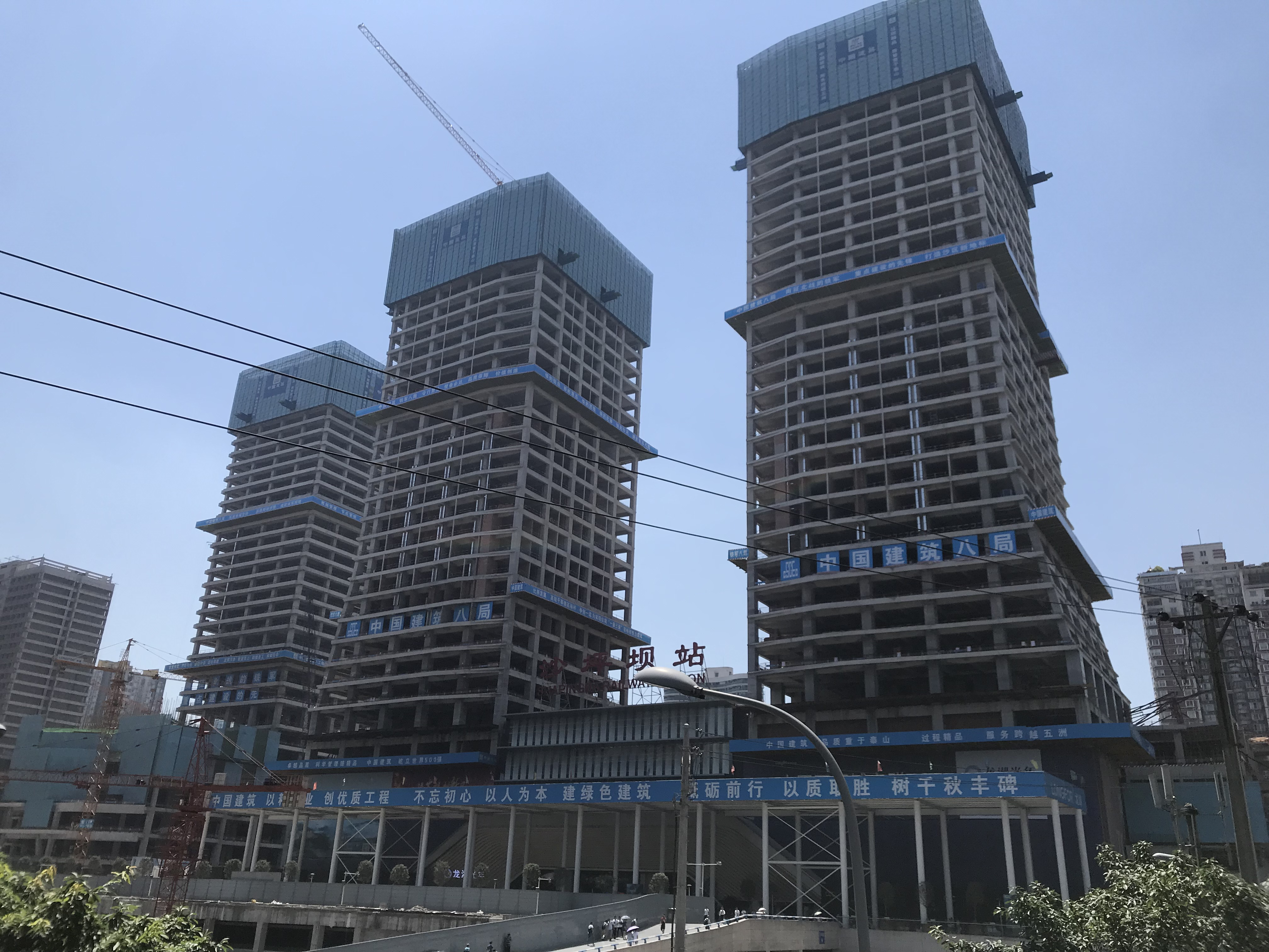 201908 Shapingba Twin Tower under Constuction